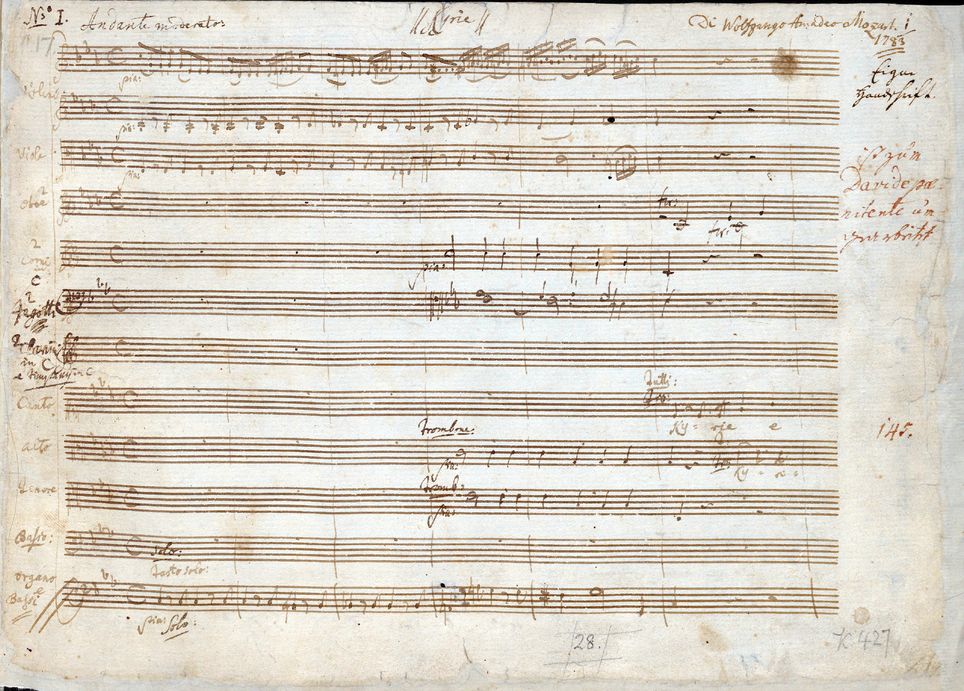 Page 1 of Mozart's autograph of his Great Mass in C minor, K. 427 (K.417a).